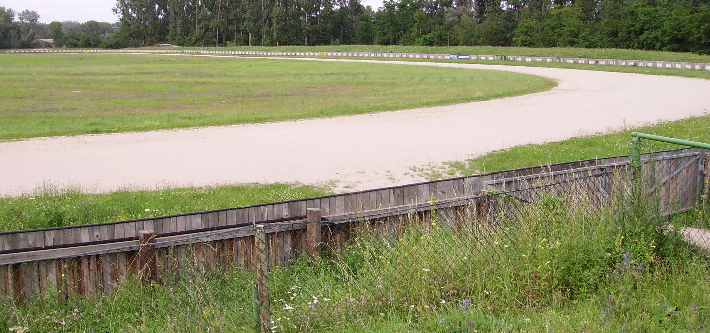 view of Altrip, Germany